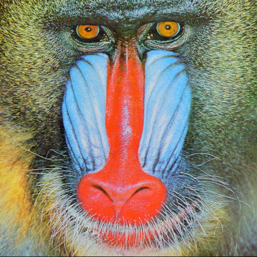 Original uncompressed image of a Mandrill from the USC SIPI Image Database.